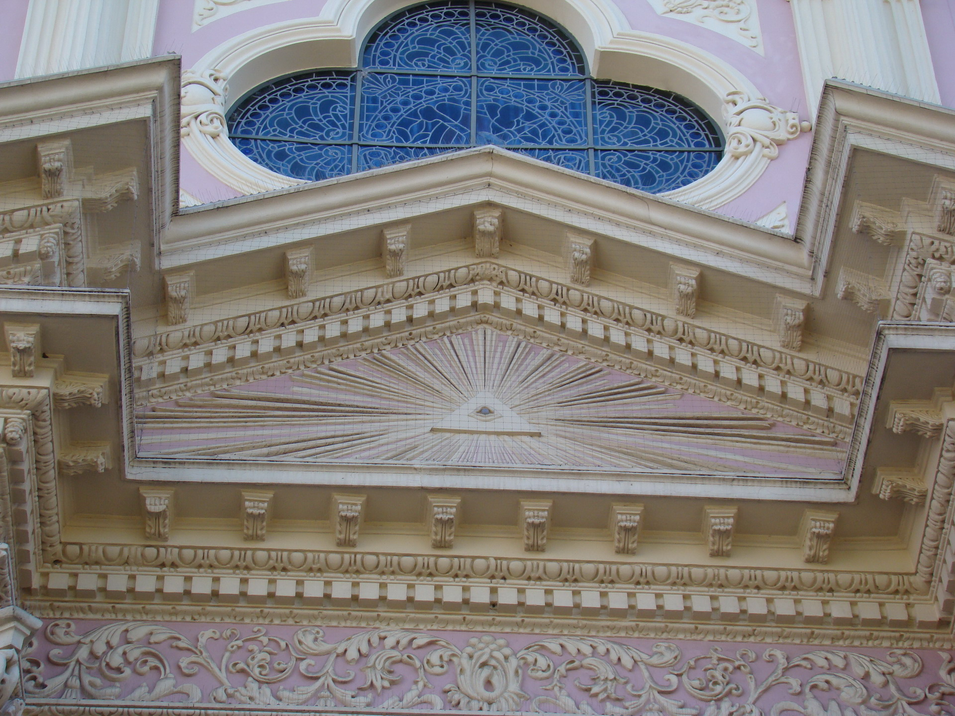 Cathedral facade Salta city (Argentina).